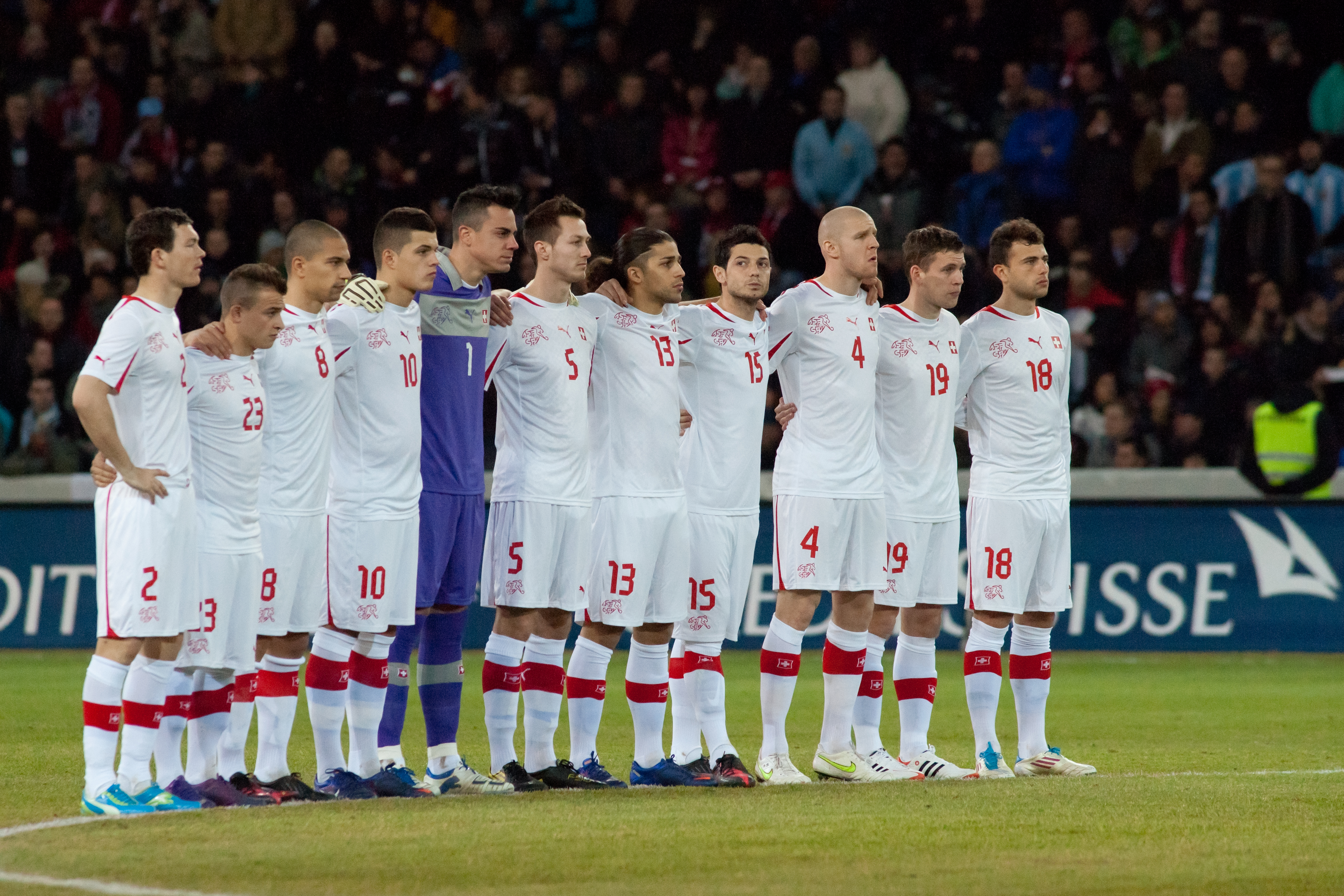 The making of this document was supported by Wikimedia CH. (Submit your project!) For all the files concerned, please see the category Supported by Wikimedia CH. Swiss vs. Argentina, 29th February 2012